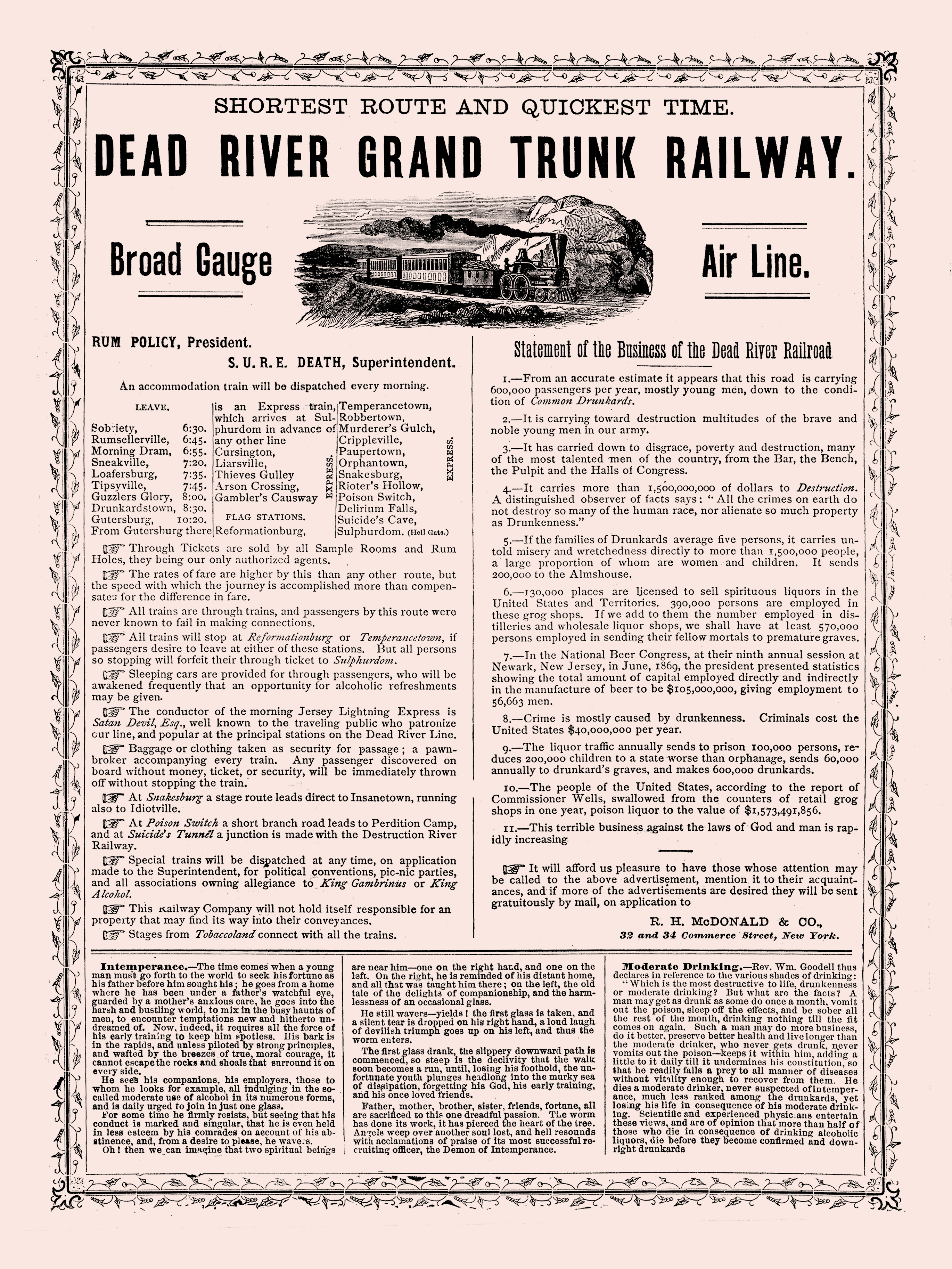 1871 advertisement promoting temperance, styled as the ficticious ad for the "Dead River Grand Trunk Railway"